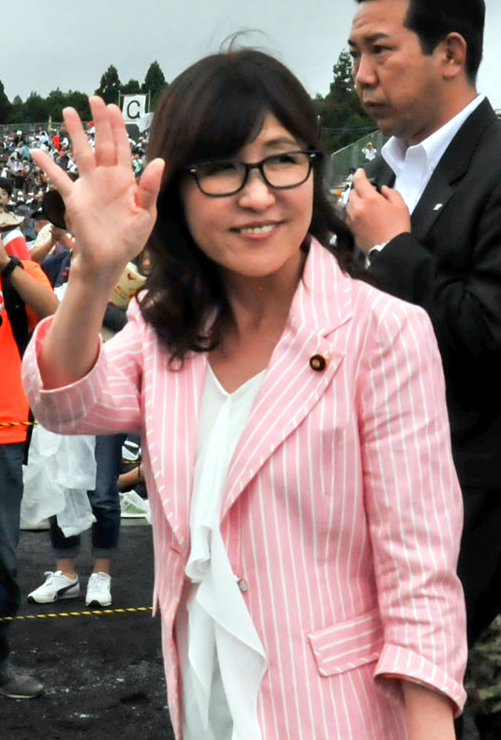 Tomomi Inada, Minister of Defense, inspected Fuji Firepower Review at the East Fuji Maneuver Area, Ground Self-Defense Force in Gotemba City, Shizuoka Prefecture on August 28, 2016.